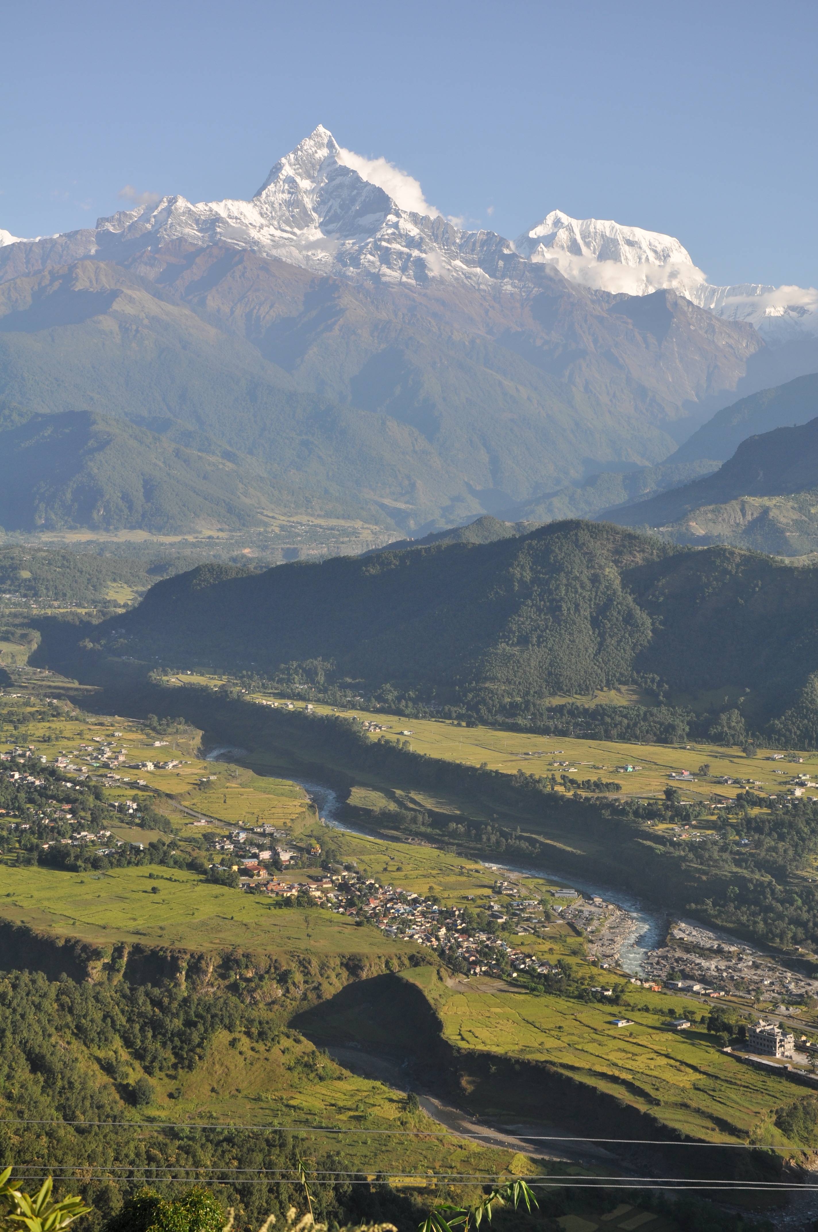 Machhapuchhre the fishtail mountain near pokhara, southern view.